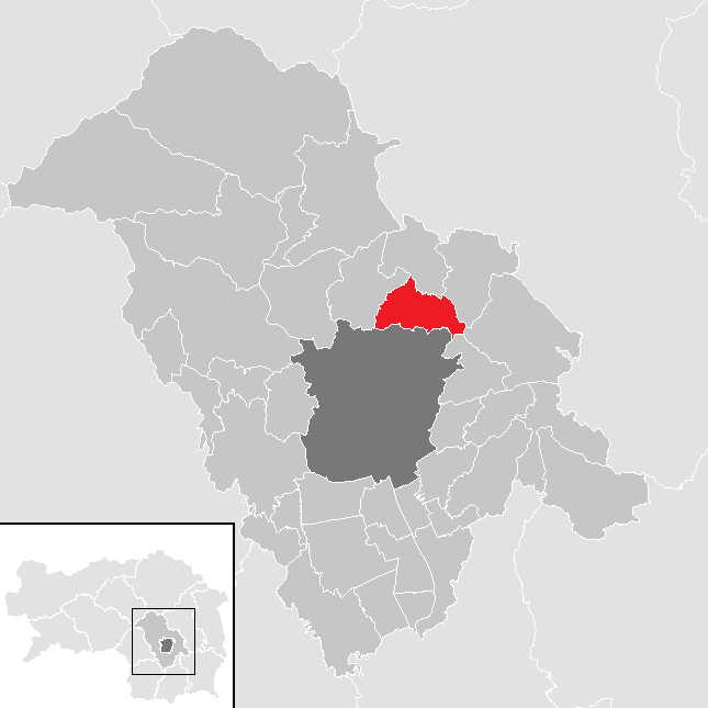 District Graz-Umgebung, Styria